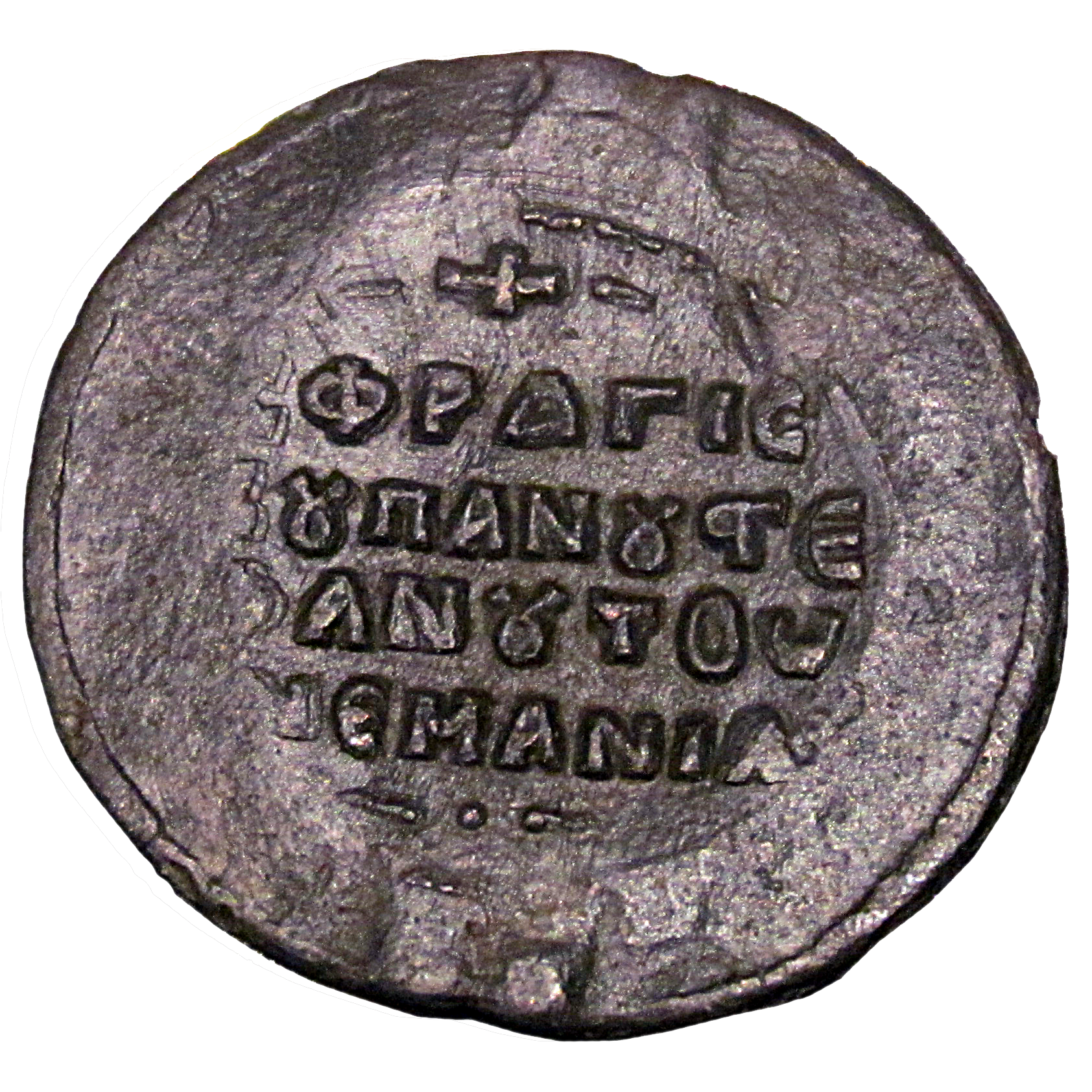 Lead seal of Zhupan Stefan Nemanja 1142-1166, vicinity of Kostolac, National Museum of Serbia